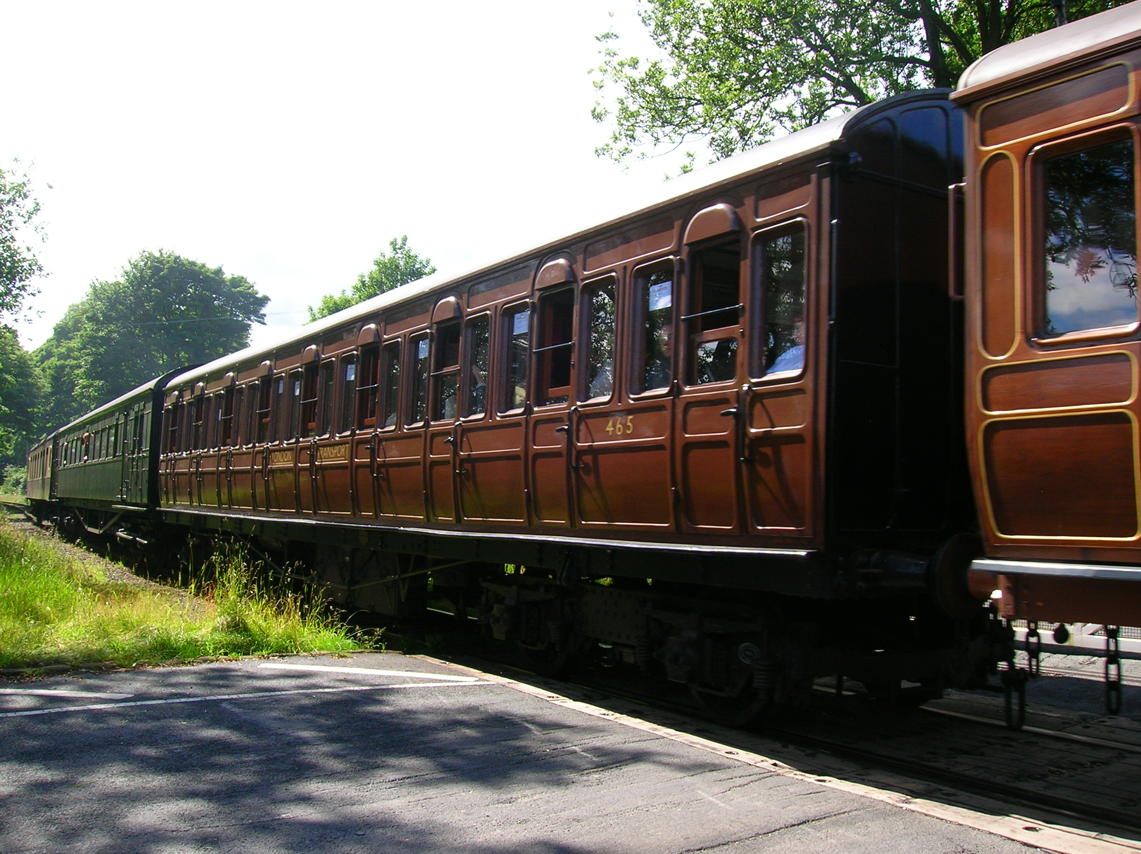 40 Anniversary of the Keighley & Worth Valley Railway. 1968 - 2008 (Sunday) Photos from Oxenhope, Oakworth & Keighley Stations